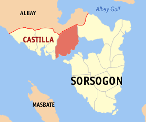 Map of Sorsogon showing the location of Castilla